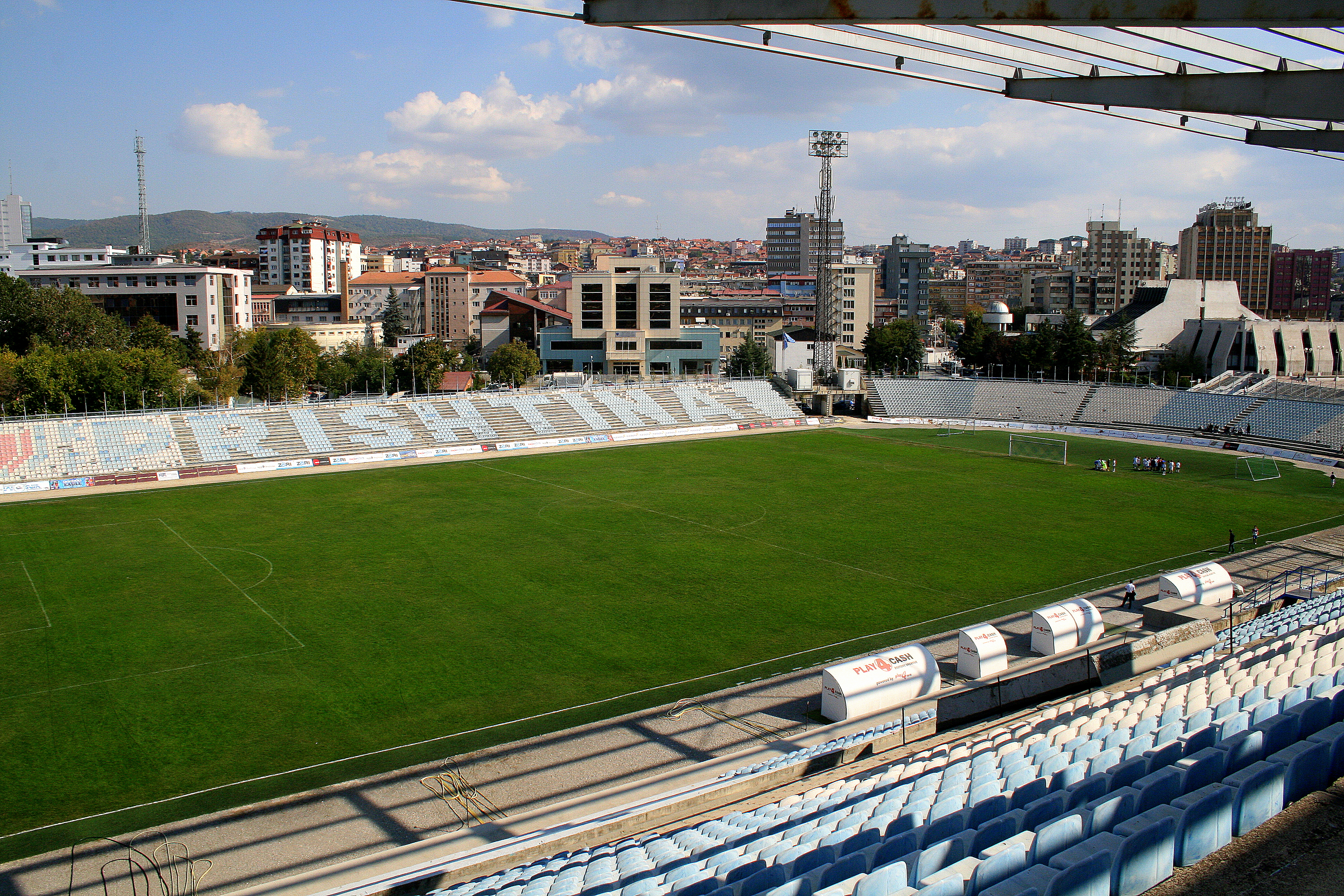 Fc Prishtina is the most well known football team in kosova